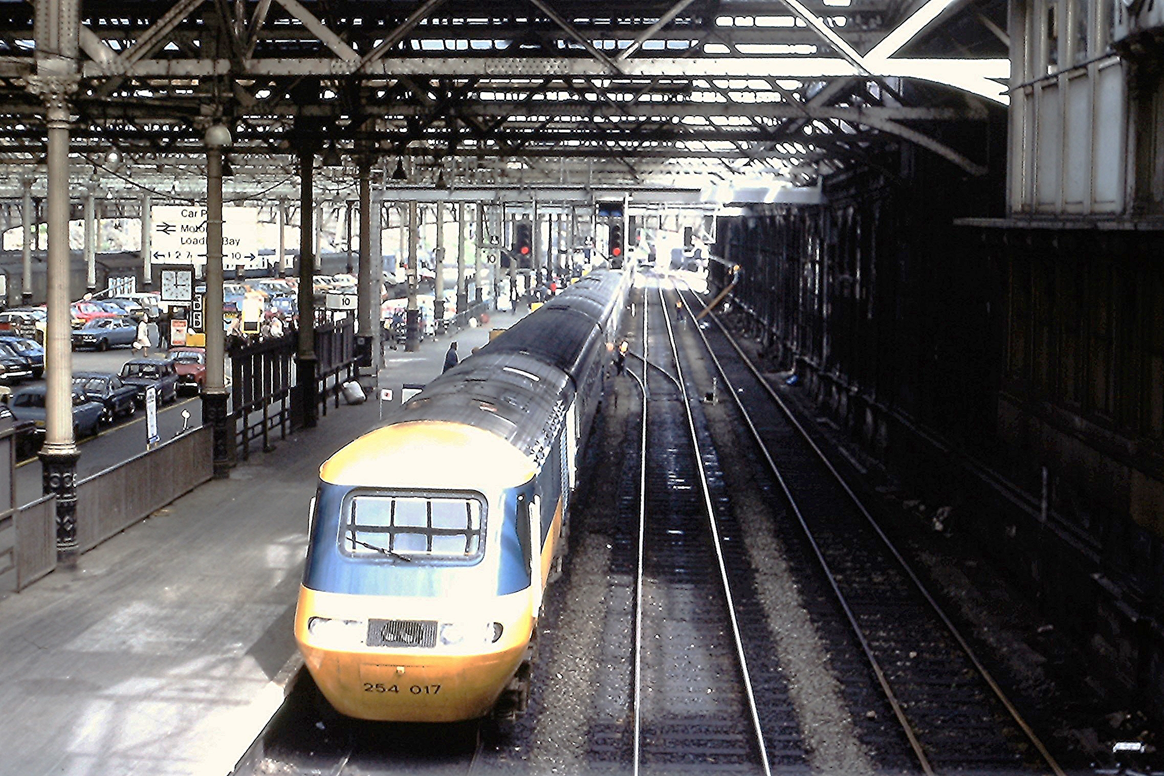 HST 254-017 Edinburgh Waverley 1978